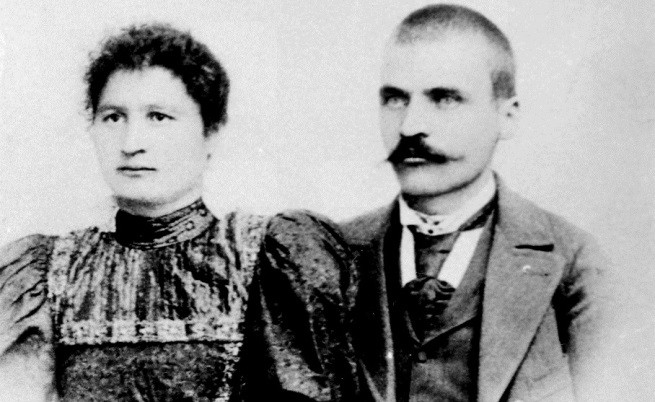 Nikola Avramov